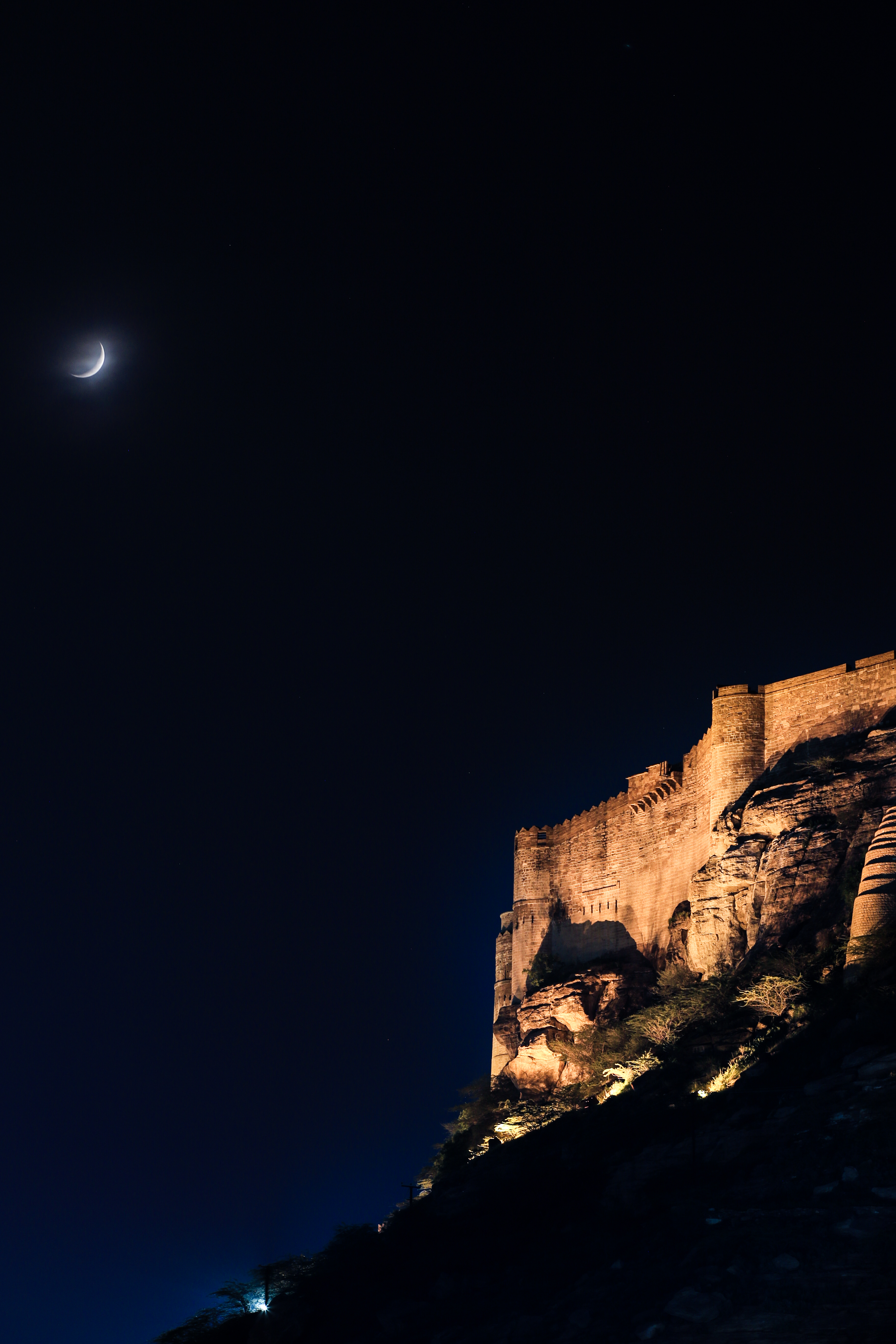 A view from a near by hotel on a clear night.